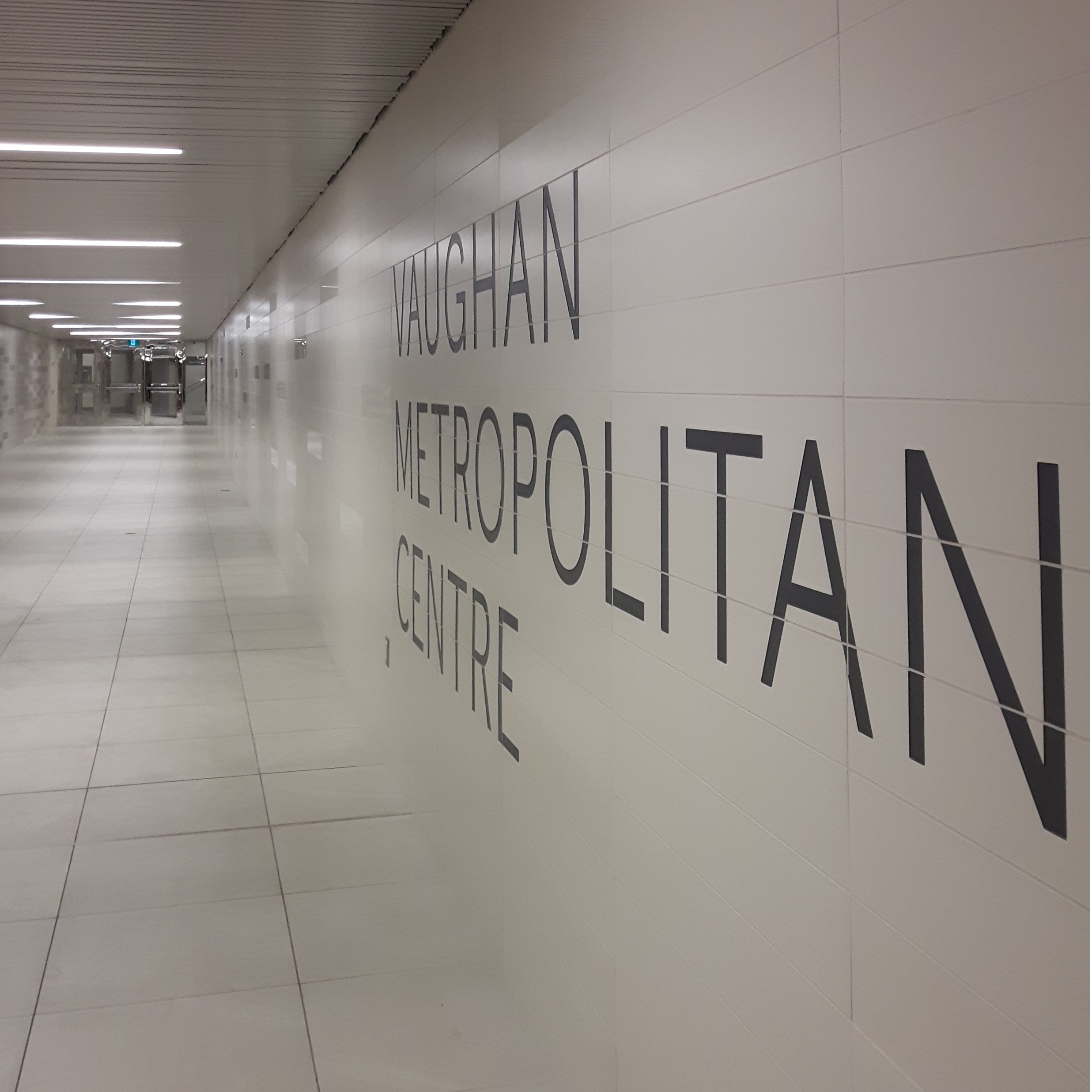 Passageway under Highway 7 at Vaughan Metropolitan Centre in Vaughan, Ontario